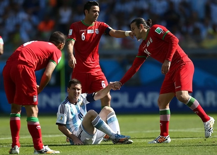 Iran and Argentina national football teams match, 2014 FIFA World Cup Group F